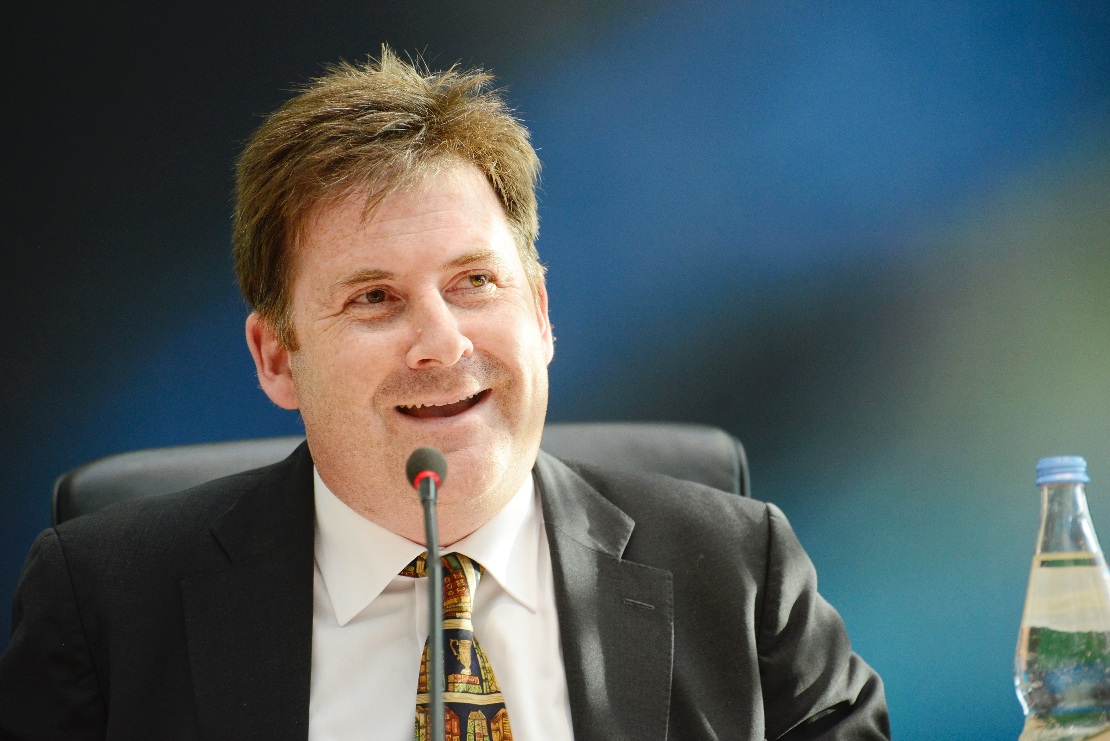 Wilfried Jilge, German historian, teaching at Leipzig university